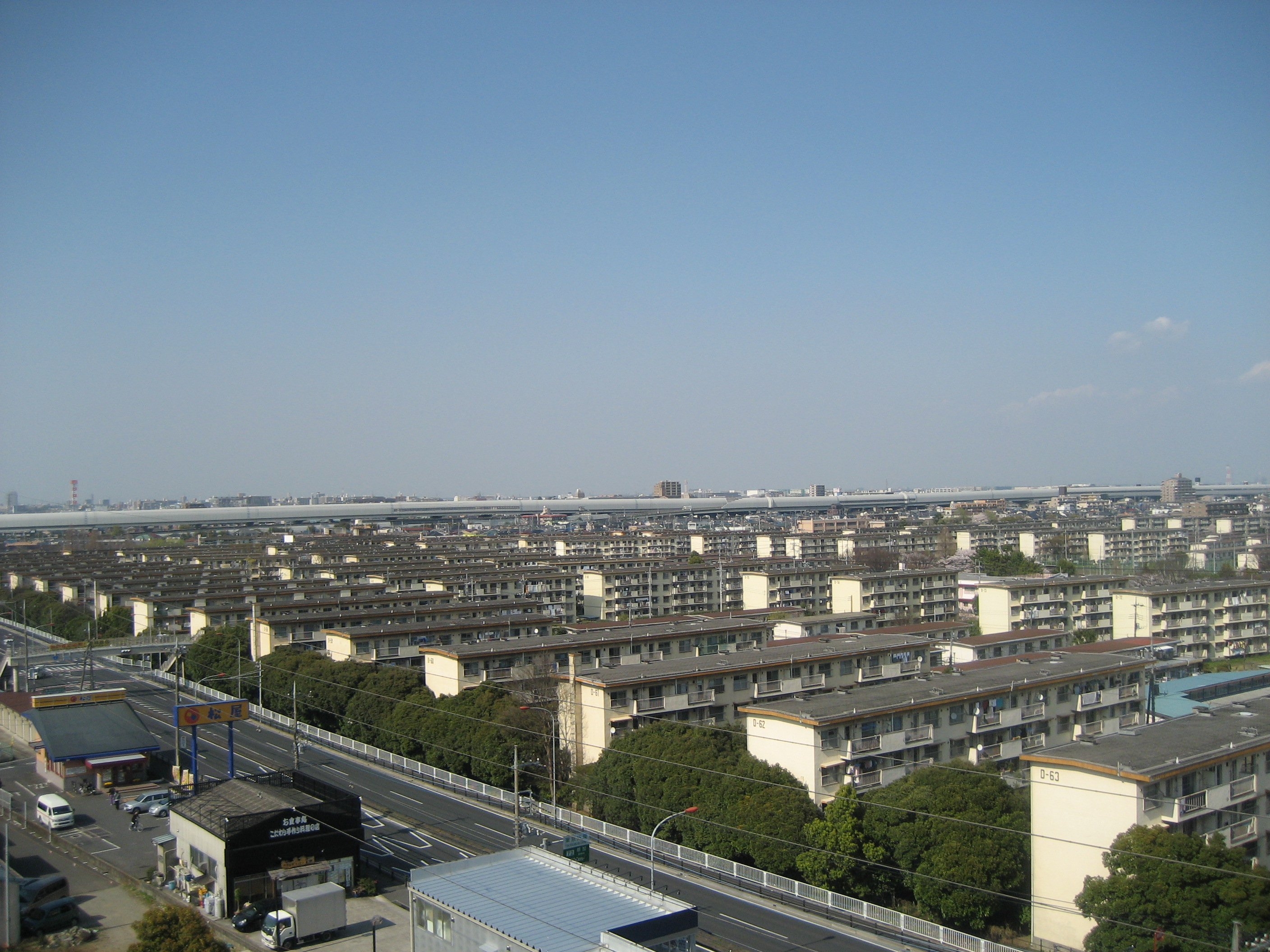 Matsubara Danchi housing complex